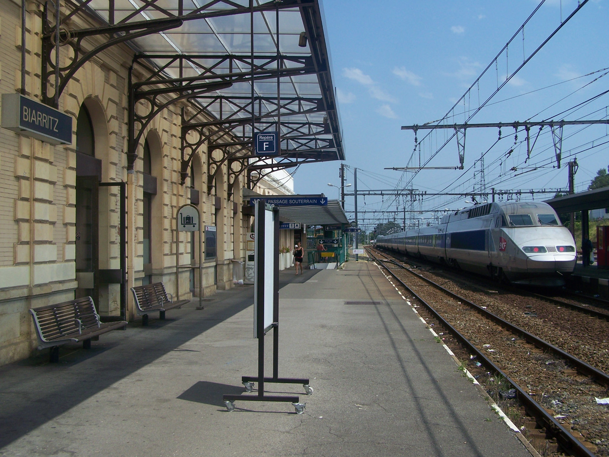 French TGV leaving the station of Biarritz in the department of Pyrénées-Atlantiques, and bound for Paris.